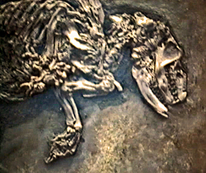 Buxolestes minor from Messel Pit Fossil Site at the Naturmuseum Senckenberg